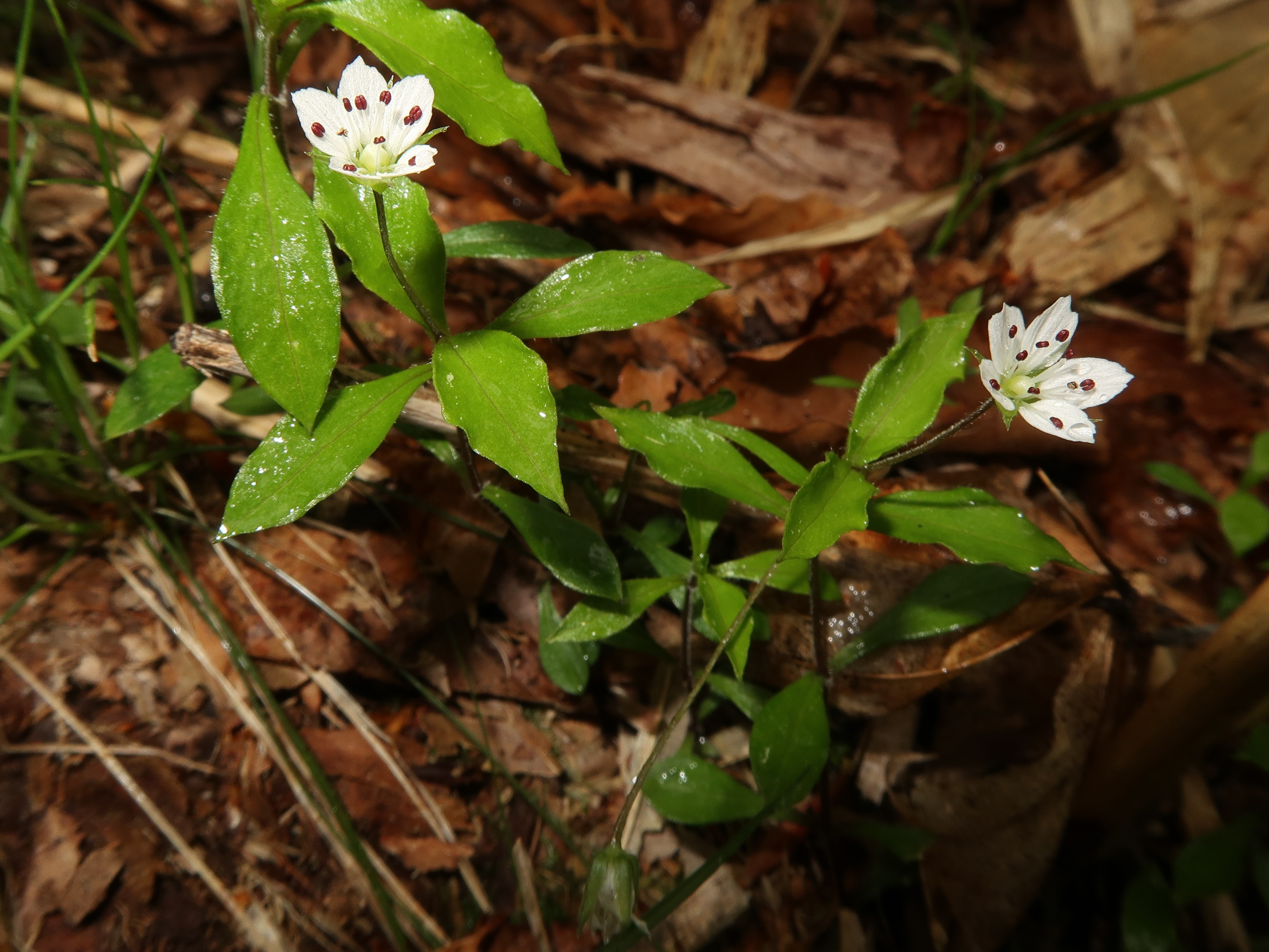 Pseudostellaria heterantha, north area, Tochigi pref., Japan